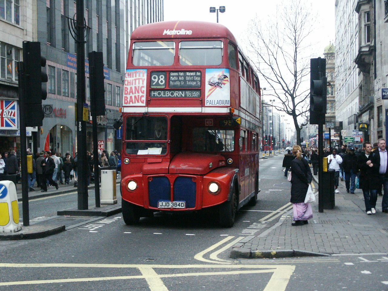 2394-JJD384D 060304 cps